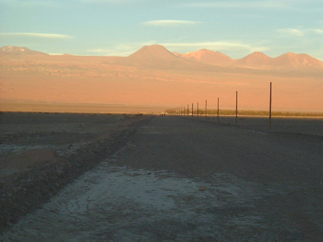 Another picture of Atacama desert with the sunset make it look like the desert is from Mars. Another picture of Atacama desert can also be found here Image:Chile-Atacama-Ghost.jpg. Pictures took when i was traveling around Chile. More pictures of Atacama and Chile available on my website